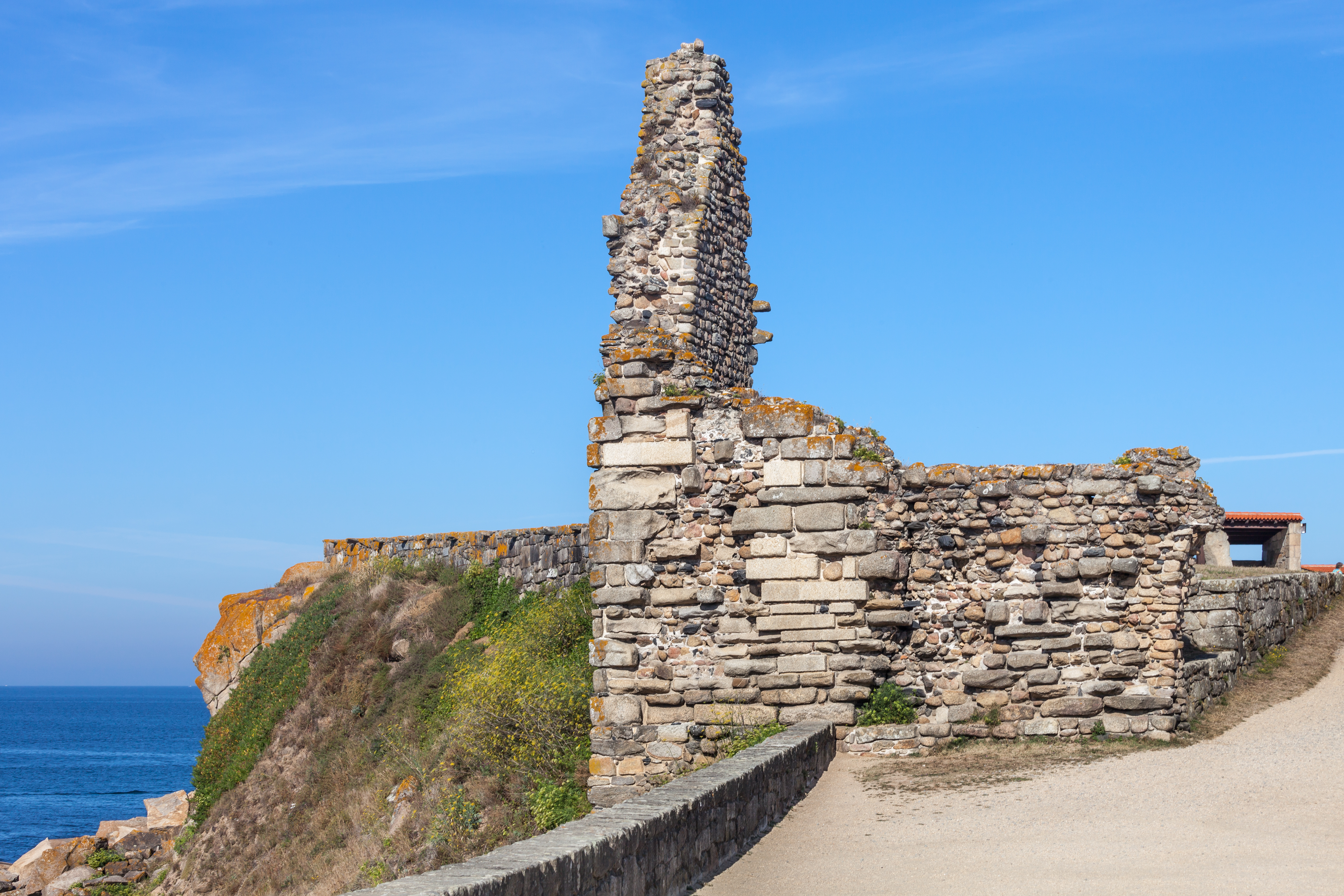 A Lanzada Tower, Noalla, Sanxenxo, Galicia (Spain).